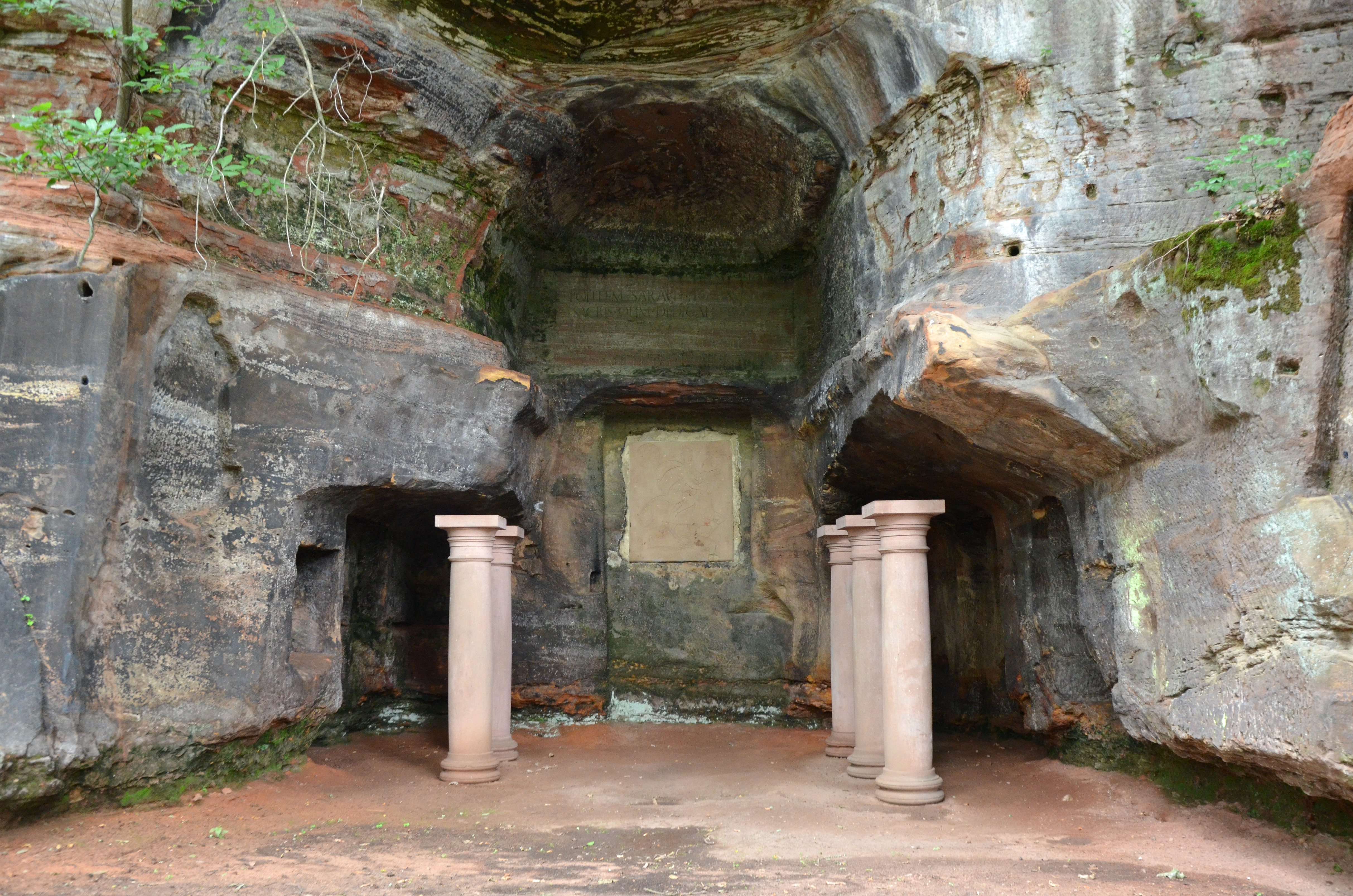 The Mithraeum in Halberg near Saarbrücken, the small cave was a sanctuary of Mithras used during the 3rd and 4th centuries AD, Halberg, Germany